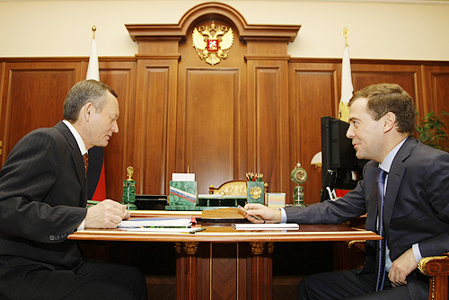 THE KREMLIN, MOSCOW. With Governor of the Trans-Baikal Region Ravil Geniatulin.